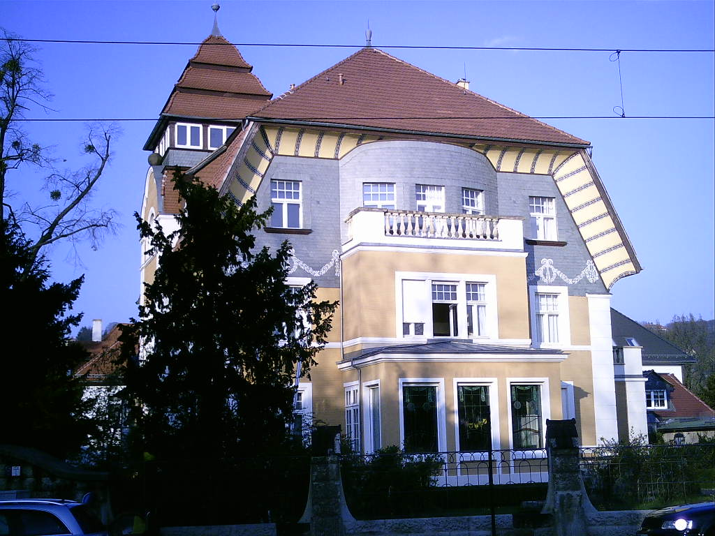 Brücke/Most-Villa, Reinhold-Becker street no. 5, Dresden-Blasewitz, Saxony